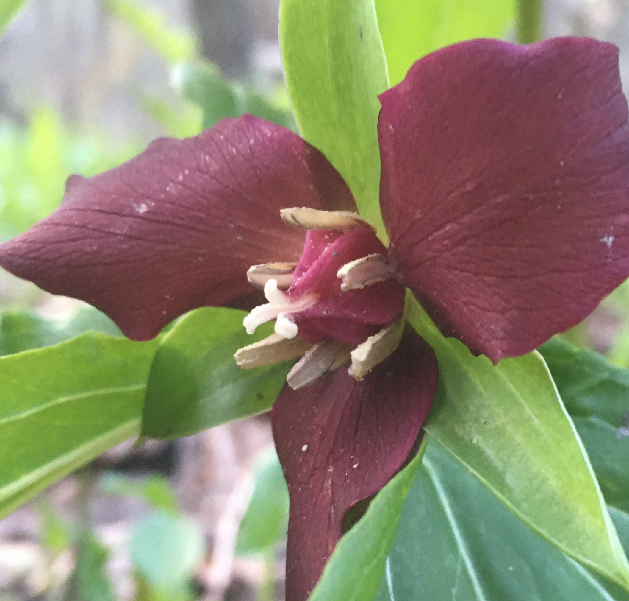 Close-up of Red Trillium flower, Rocky River reservation, Westlake Ohio. Photo by Geoffrey A. Landis.